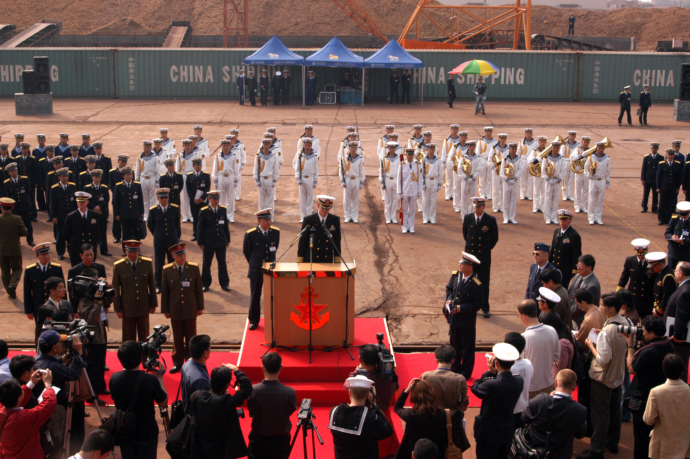 Zhanjiang, People's Republic of China (Mar. 28, 2005) - Commanding Officer, USS Blue Ridge (LCC- 19), Capt. J. Stephen Maynard, answers questions from the Chinese media during a press conference held on the pier shortly after pulling into Zhanjiang, China. The Sailors and Marines from the ship and embarked staff will take an opportunity to experience the local culture and interact with their counterparts from the People's Liberation Army and Navy. Blue Ridge, U.S. Seventh Fleet command ship, is forward deployed to Yokosuka, Japan. U.S. Navy photo by Photographer's Mate 3rd Class Lowell Whitman (RELEASED)